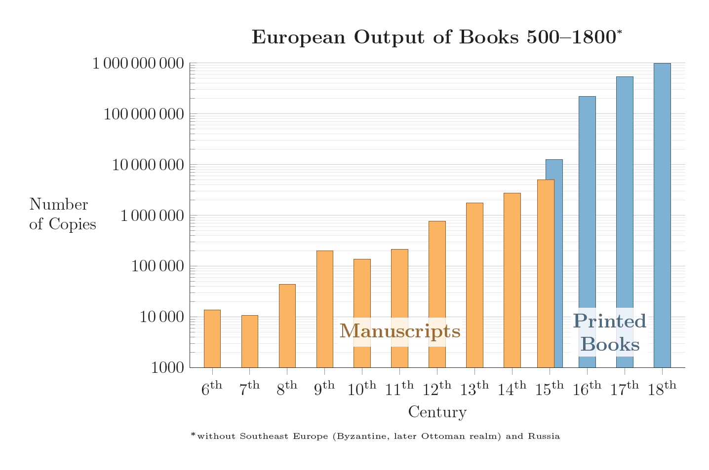 Estimated European output of books from 500 to 1800. Manuscripts do not include individual deeds and charters. A printed book is defined as printed matter containing more than 49 pages.